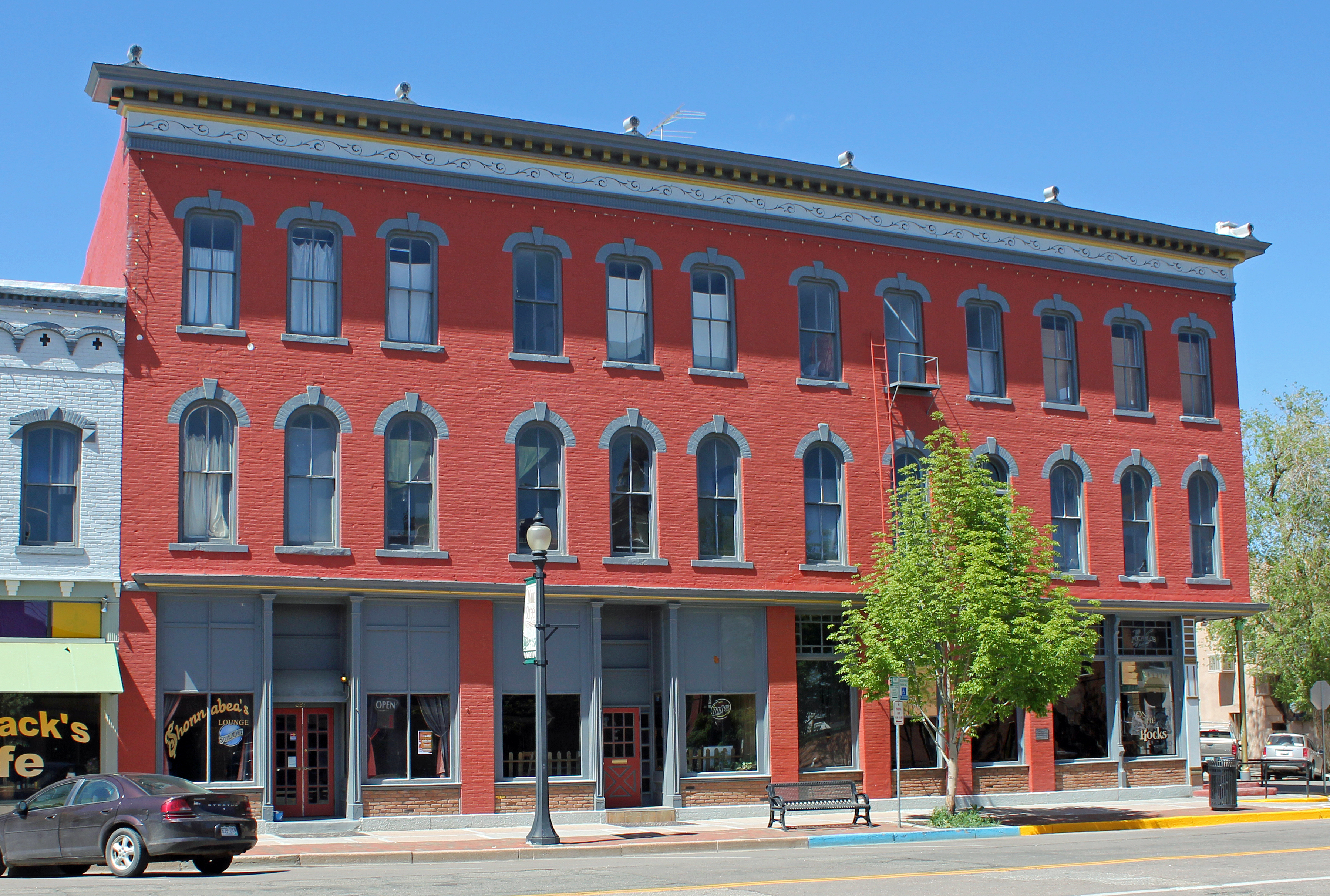 The McClure House / Strathmore Hotel, located at 331 Main Street in Cañon City, Colorado. The property is listed on the National Register of Historic Places.